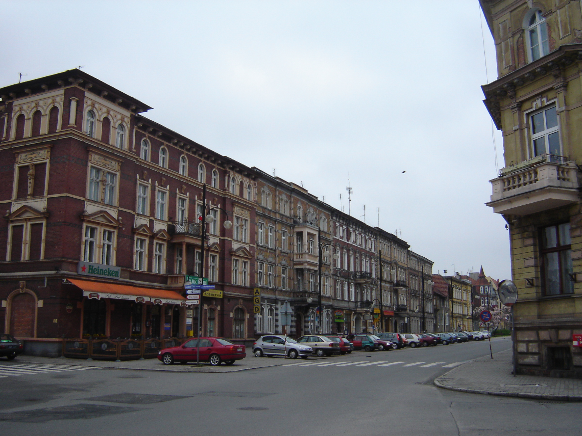 Center of Koźle